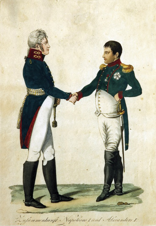 Meeting of Napoleon and Alexander I // State Borodino War and History Museum, Moscow // Etching, watercolour